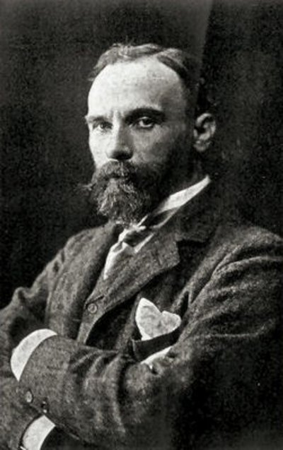 A photograph of John William Waterhouse.